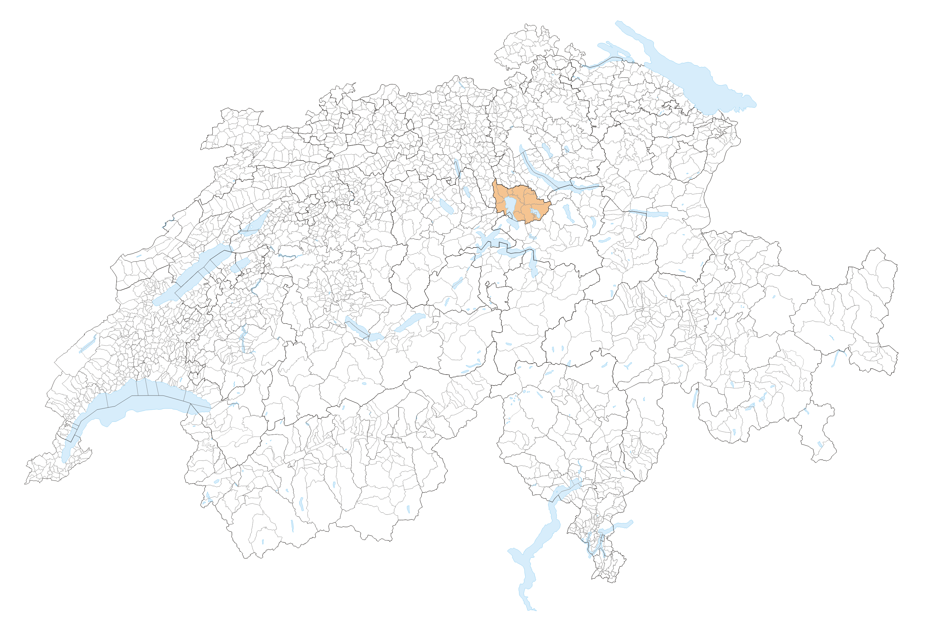 Kanton Zug